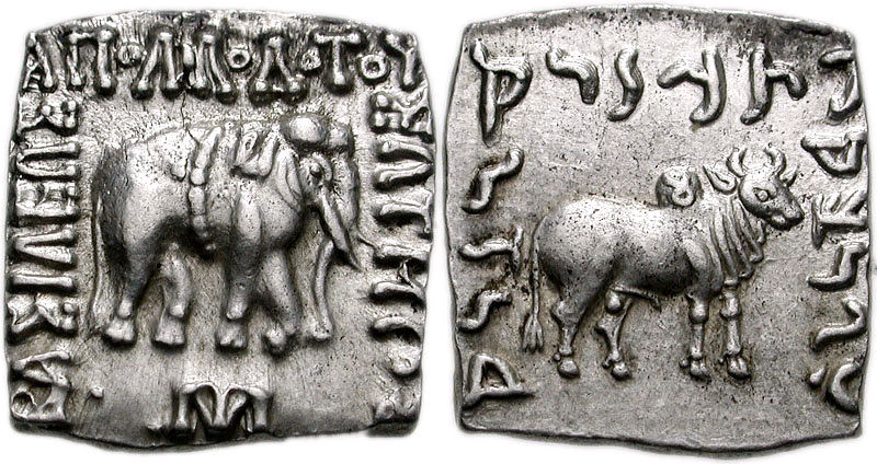 Apollodotus bull with nandipada. Another coin where the symbol on the hump is clear